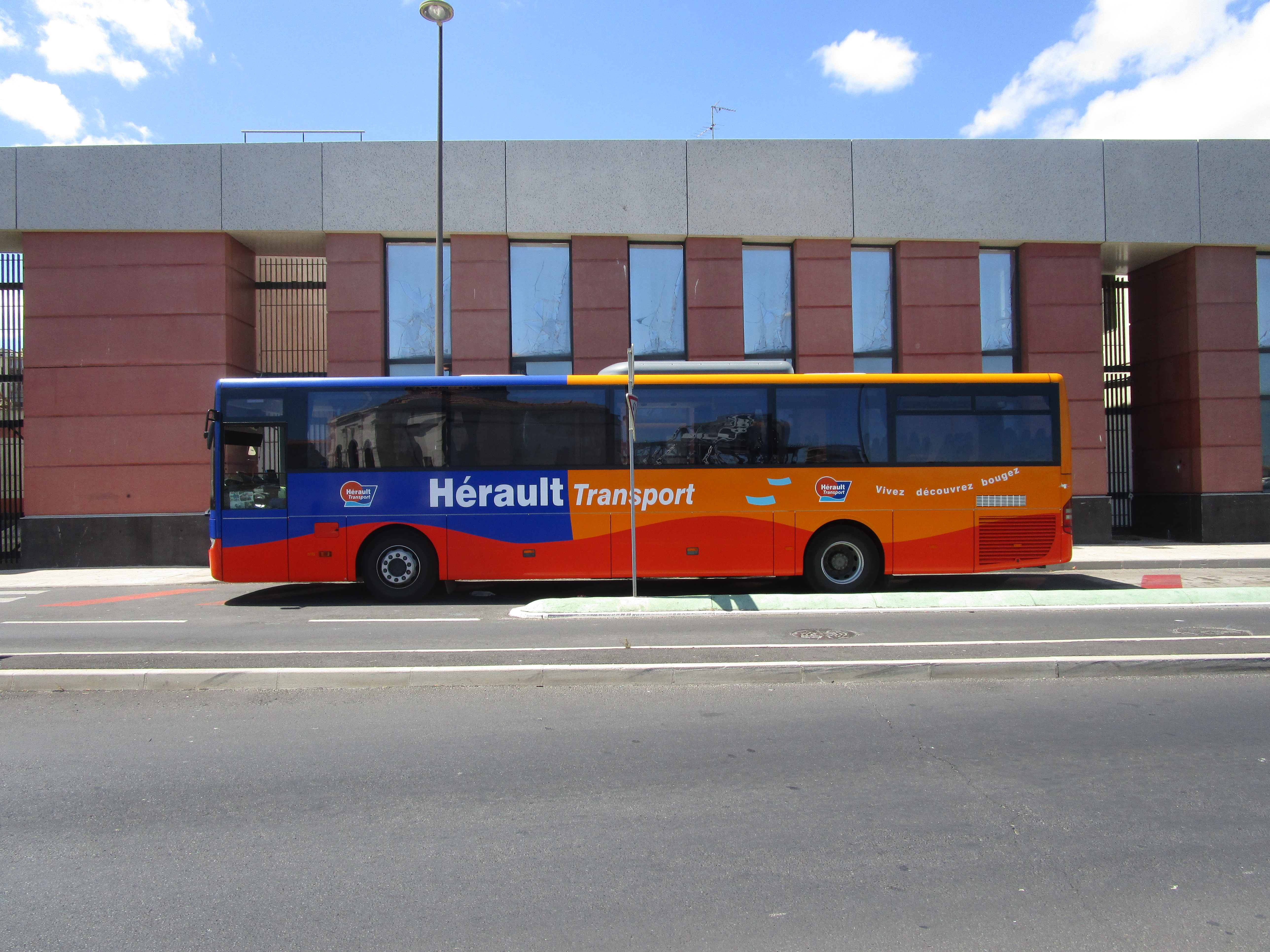 A bus Mercedes-Benz Intouro of Hérault Transport in Sète on July 27, 2015.